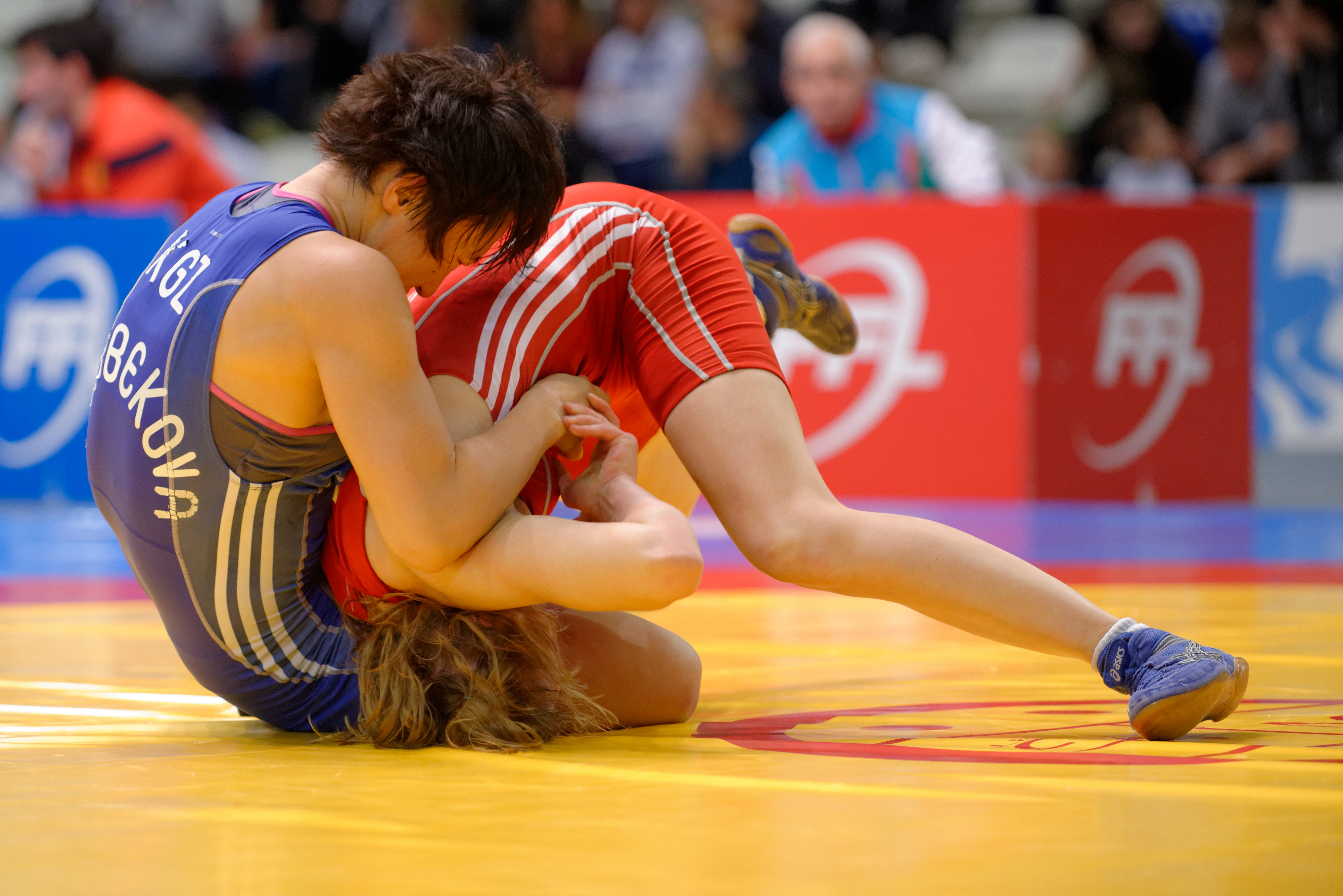 Yuliya Ratkevich of Azerbaijan (red) wrestles Aisuluu Tynybekova of Kyrgyzstan (blue) during their female wrestling 58 kg quarter-final at the Golden Grand Prix of Paris on 8 February 2014.